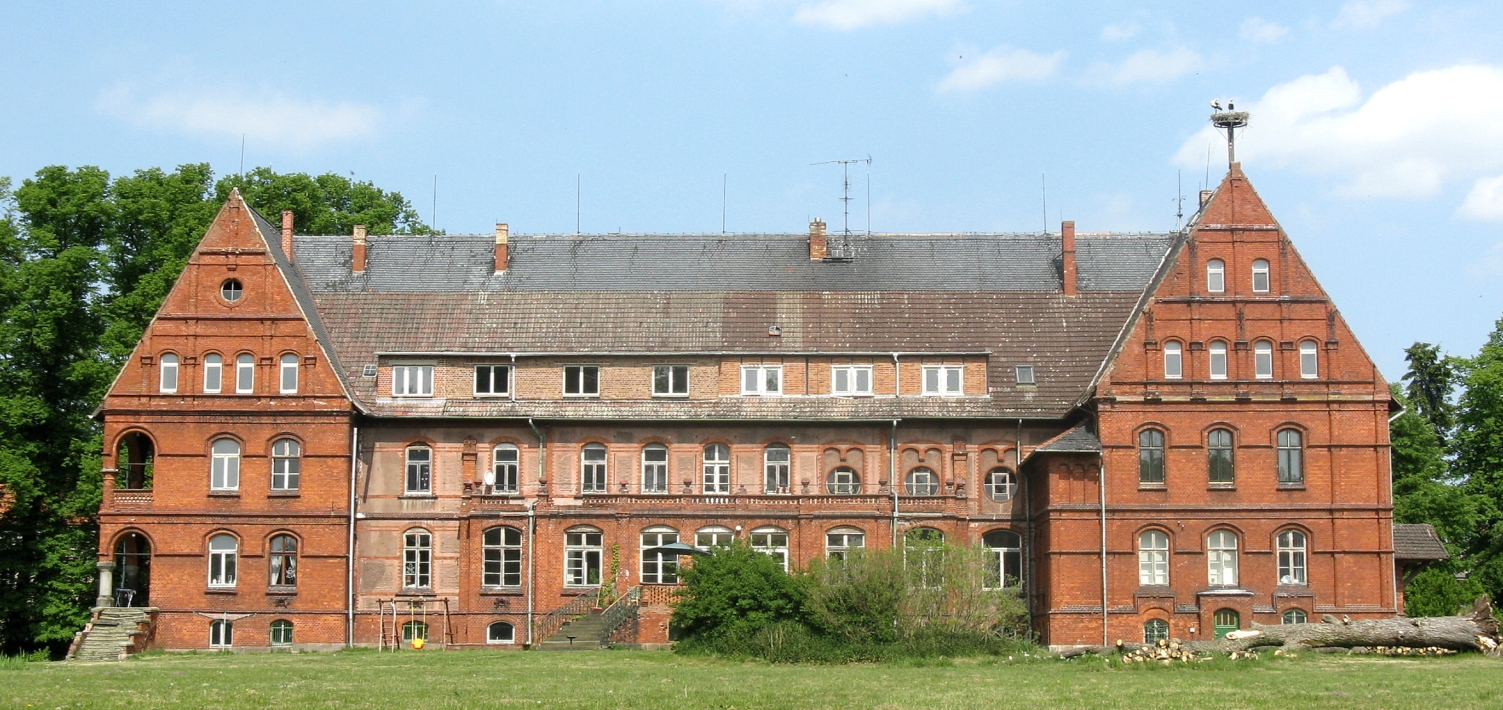 Melkof Castle, Mecklenburg-Vorpommern, Germany